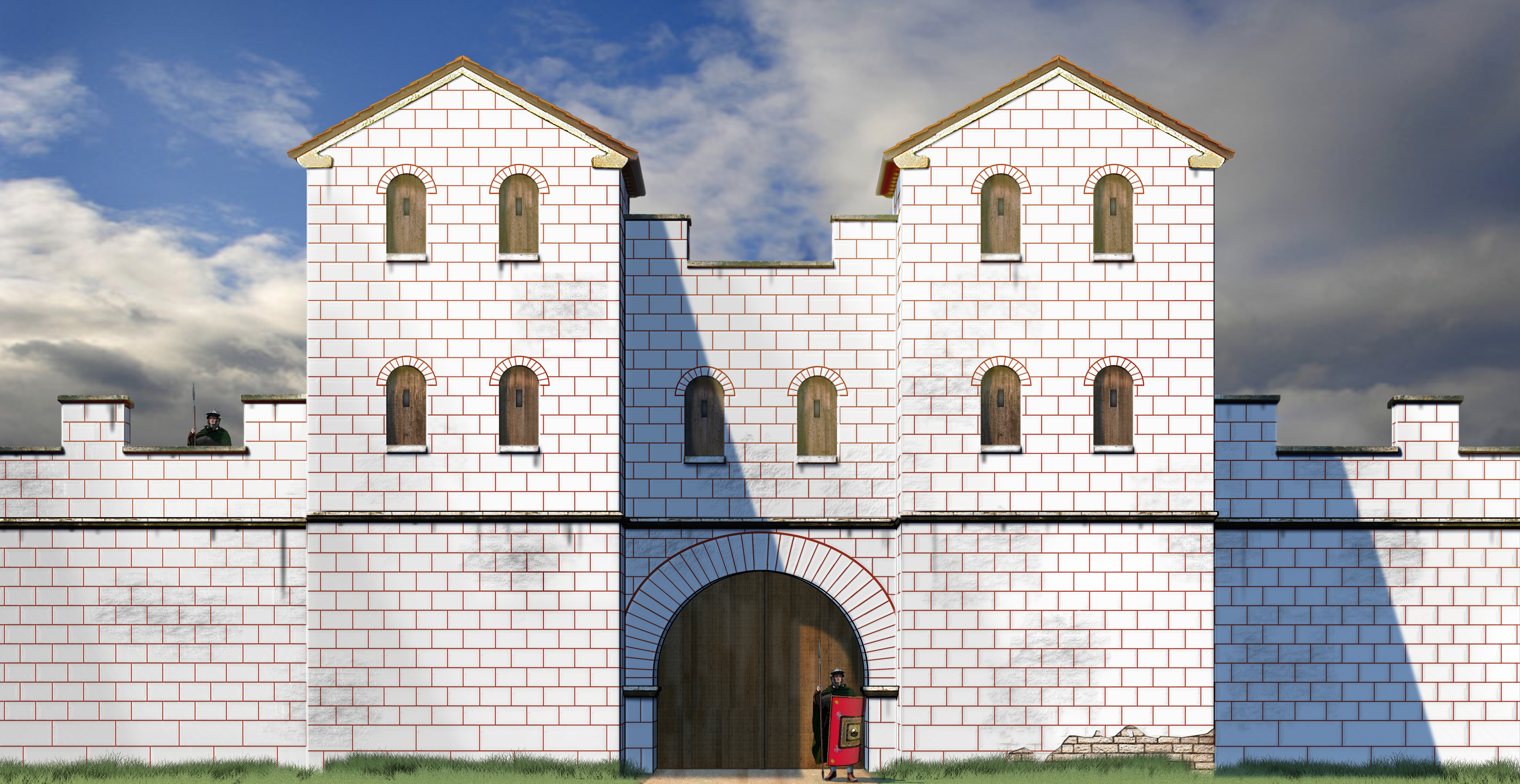 North Gate at the castle Mautern (Favianis), Danube, Lower Austria. Excavations of 1996–97.